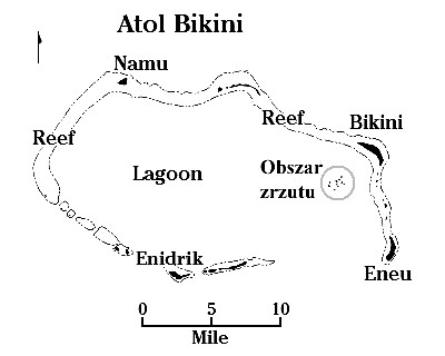 Map of Bikini Atoll with location of Operation Crossroads nuclear bomb tests.